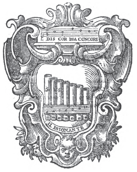 Symbolic depiction of harmony (armonia)